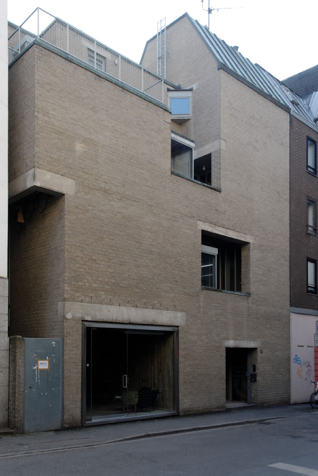 House Mutter-Ey-Straße 3 in Düsseldorf-Altstadt, Germany